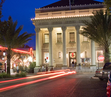 Downtown Gainesville